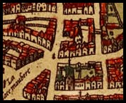 in :Civitates Orbis Terrarum ,Plan de Paris quartier place Maubert